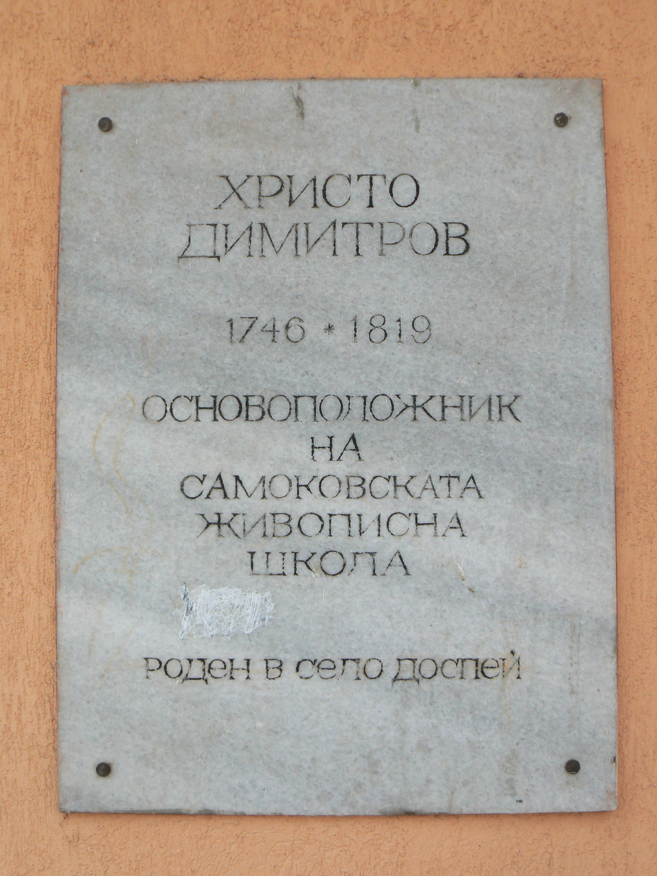 Memorial plaque to the icon painter Hristo Dimitrov in his native village Dospey, Bulgaria